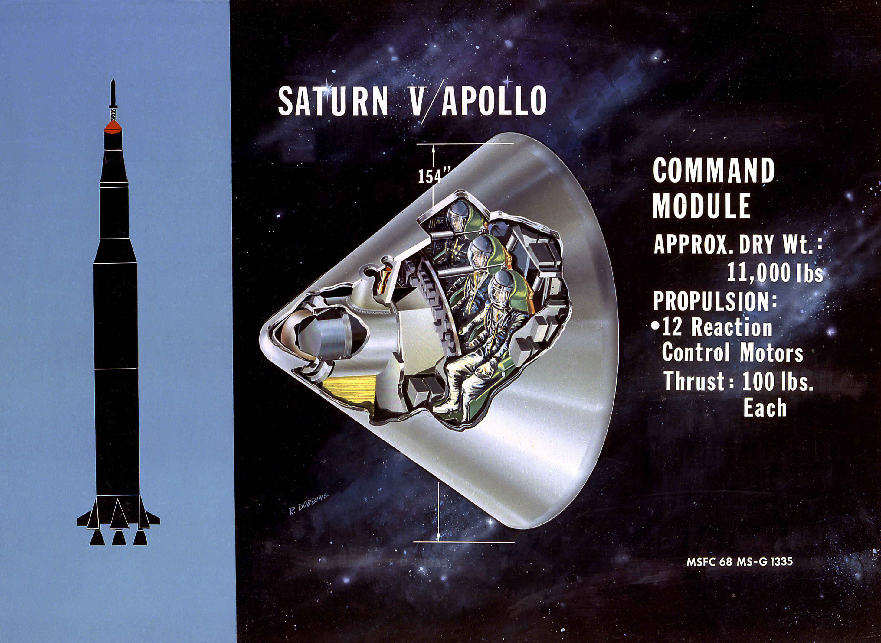 This is a cutaway illustration of the Saturn V command module (CM) configuration. The CM was crammed with some of the most complex equipment ever sent into space at the time. The three astronaut couches were surrounded by instrument panels, navigation gear, radios, life-support systems, and small engines to keep it stable during reentry. The entire cone, 11 feet long and 13 feet in diameter, was protected by a charring heat shield. The 6.5 ton CM was all that was finally left of the 3,000-ton Saturn V vehicle that lifted off on the journey to the Moon.